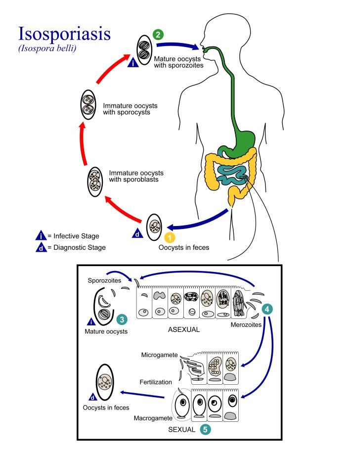 ID#:3398 This is an illustration of the life cycle of Isospora belli, the causal agent of Isosporiasis. At time of excretion, the immature oocyst contains usually one sporoblast (more rarely two) (1). In further maturation after excretion, the sporoblast divides in two (the oocyst now contains two sporoblasts); the sporoblasts secrete a cyst wall, thus becoming sporocysts; and the sporocysts divide twice to produce four sporozoites each (2). Infection occurs by ingestion of sporocysts-containing oocysts: the sporocysts excyst in the small intestine and release their sporozoites, which invade the epithelial cells and initiate schizogony (3). Upon rupture of the schizonts, the merozoites are released, invade new epithelial cells, and continue the cycle of asexual multiplication (4). Trophozoites develop into schizonts which contain multiple merozoites. After a minimum of one week, the sexual stage begins with the development of male and female gametocytes (5). Fertilization results in the development of oocysts that are excreted in the stool (1). Isospora belli infects both humans and animals. ([1])